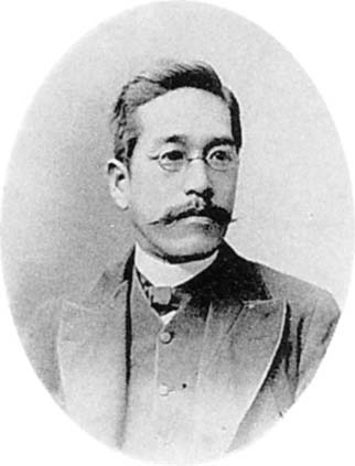 Y. Hijikata, Professor of Civil Code and English Law.